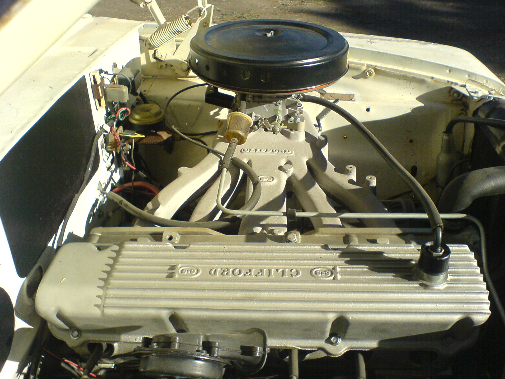 This is a 4 bbl Slant-6 Hyper-Pak reproduction by Clifford Performance in a 1962 Plymouth Valiant.